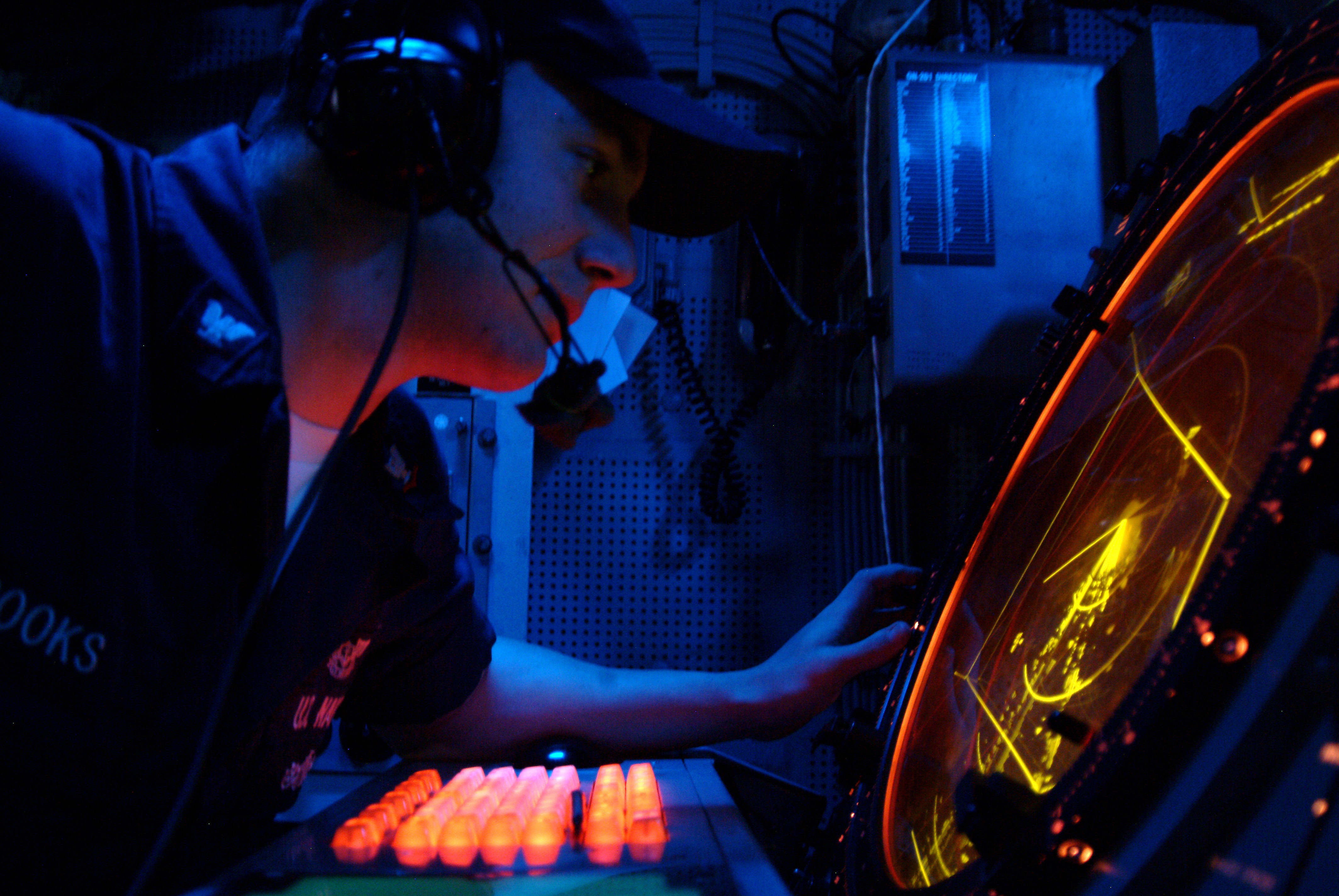 041108-N-9222M-010 Arabian Gulf - Air Traffic Controller 3rd Class Robert Brooks monitors the approach radar from Helicopter Direction Center (HDC) aboard the amphibious assault ship USS Essex (LHD 2). Essex is on a scheduled deployment to the North Arabian Gulf as part of Expeditionary Strike Group Three (ESG-3) in support of Operation Iraqi Freedom (OIF).